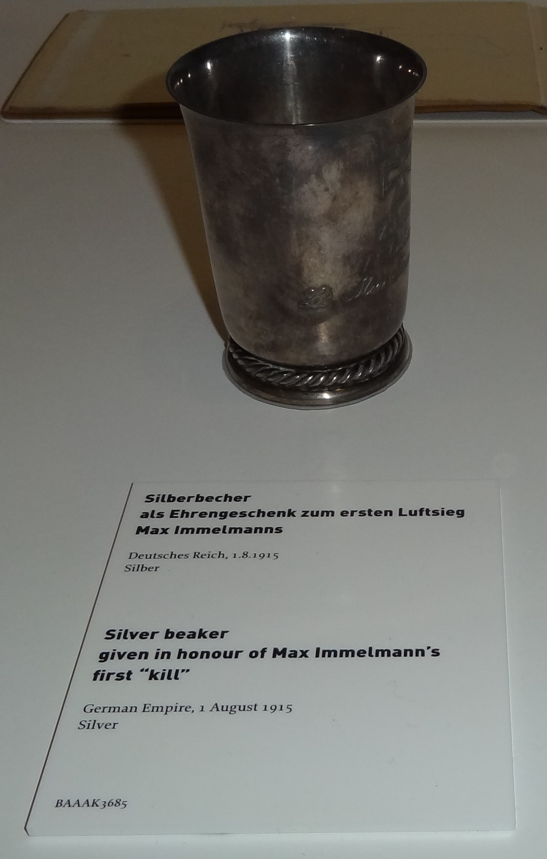 Picture taken in Dresden, Bundeswehr Military History Museum